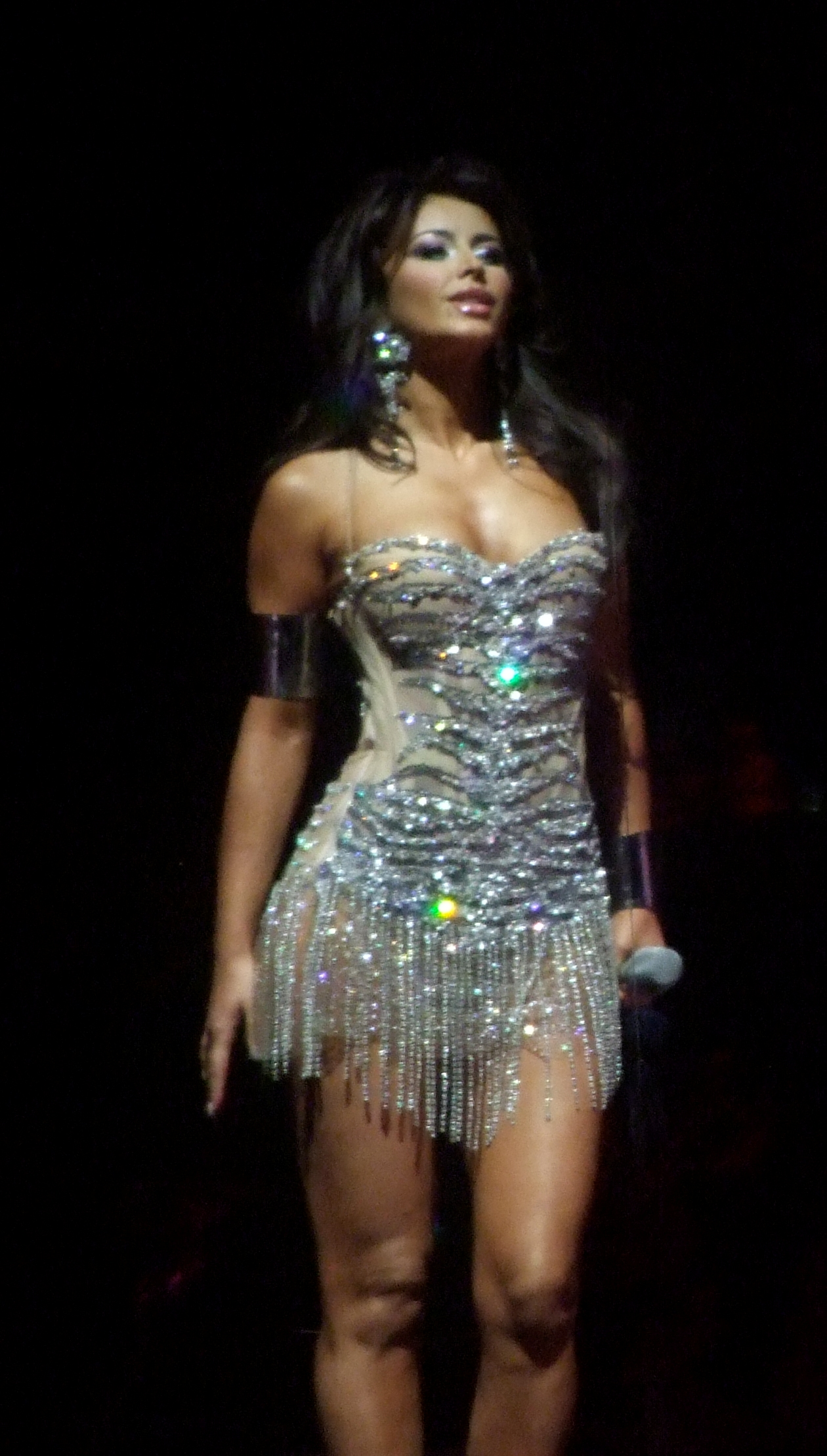 Ani Lorak (Ukraine) performing Shady Lady at second semi-final, Eurovision Song Contest 2008 in Belgrade, Serbia, May 22, 2008